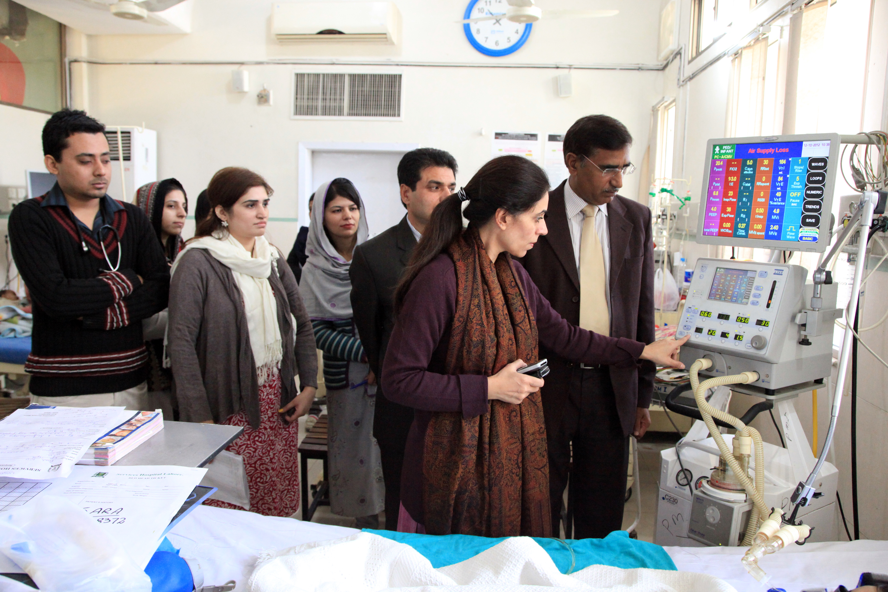 Vital signs demostration